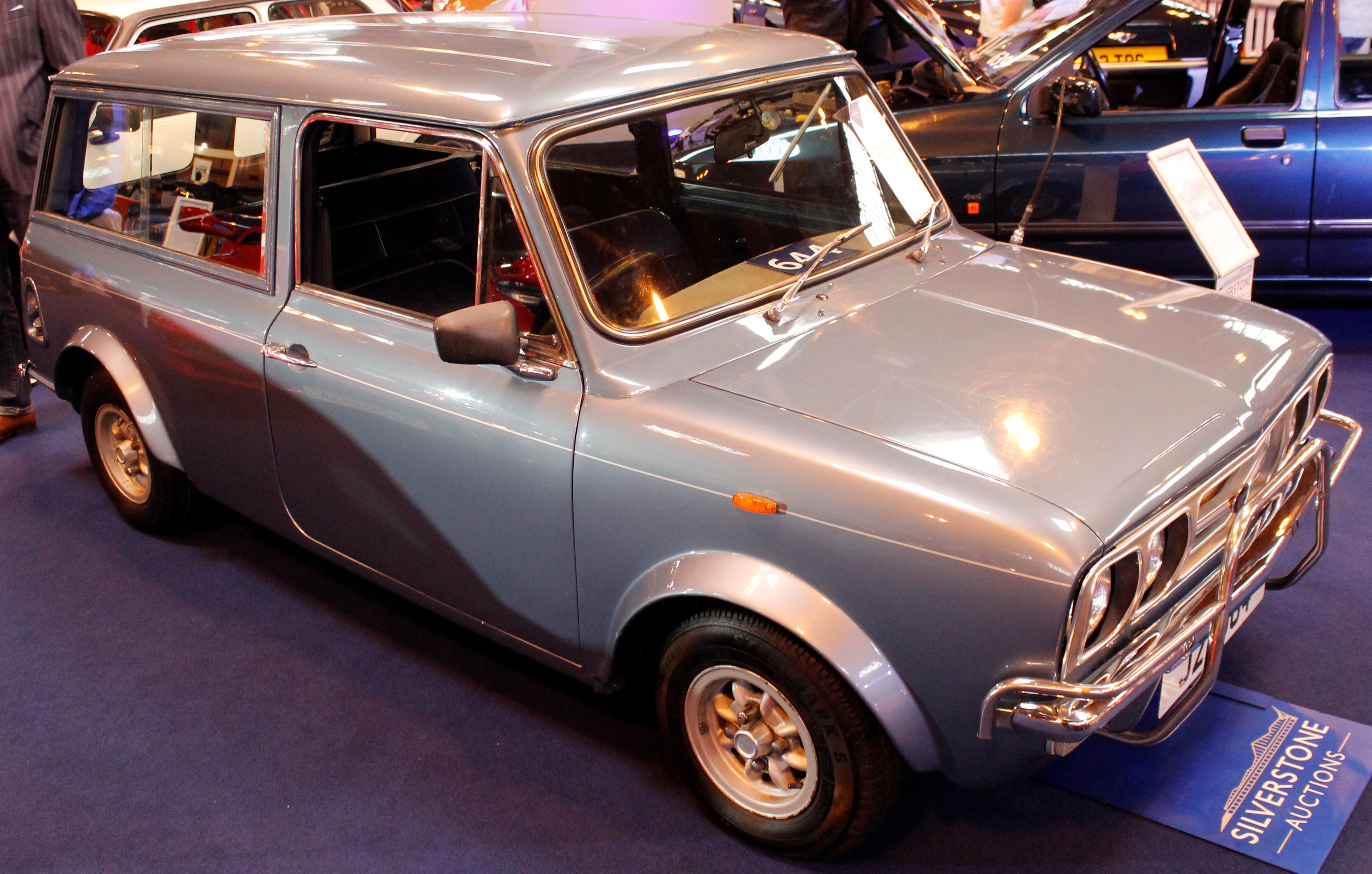 NEC Classic car show 2015